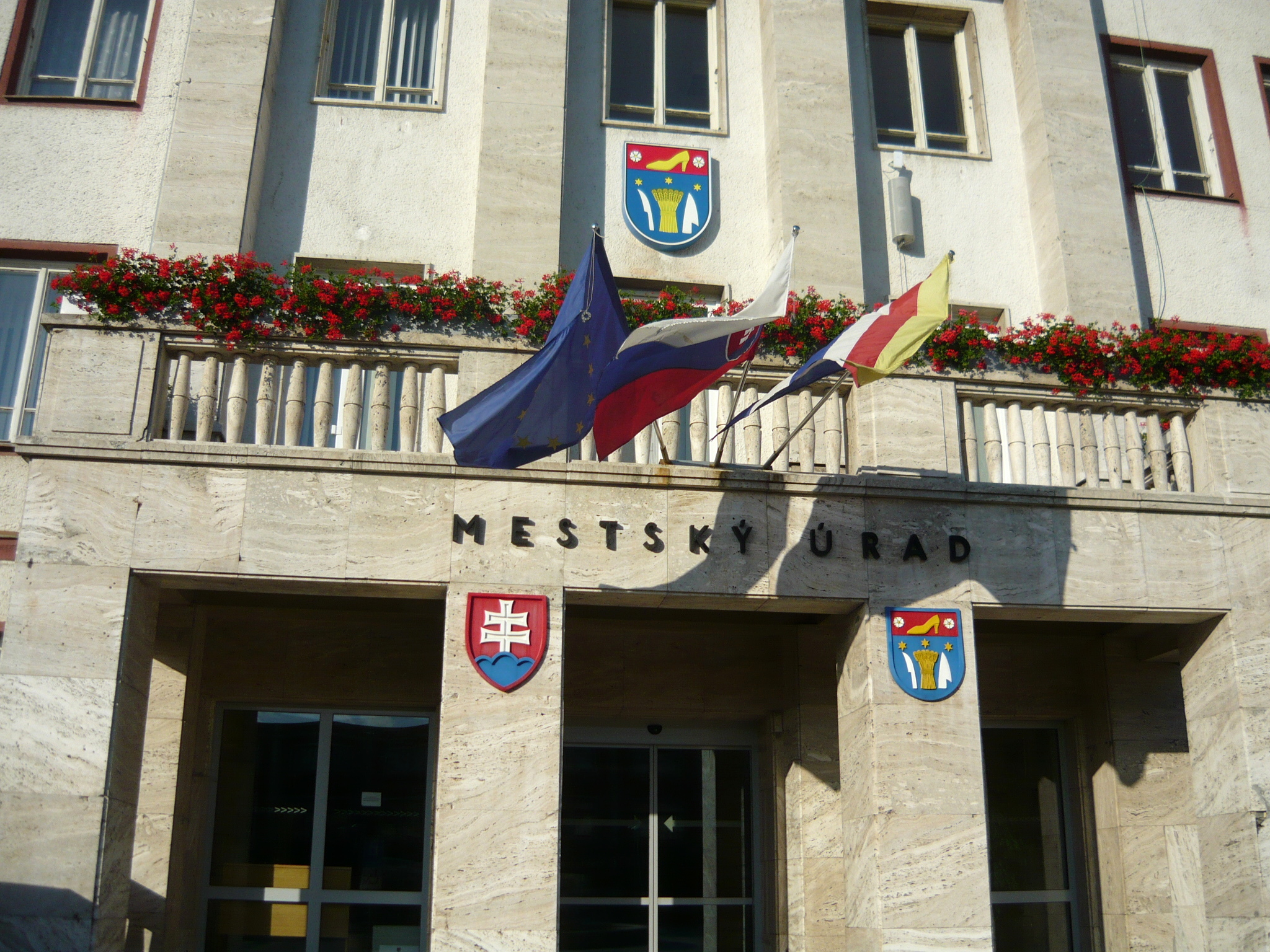 City hall of Partizánske, Slovakia.